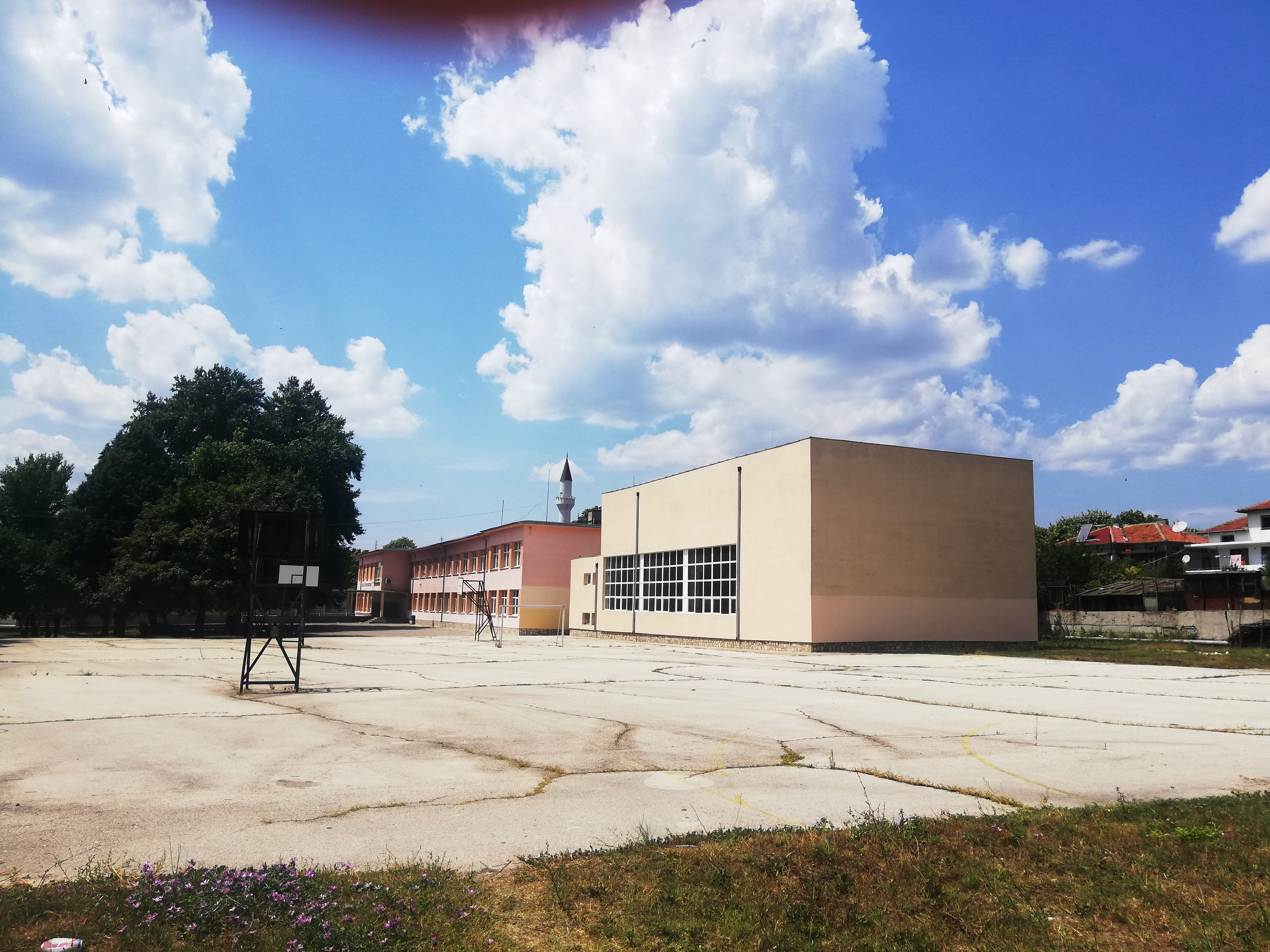 A school in Ezerovo, Varna Province